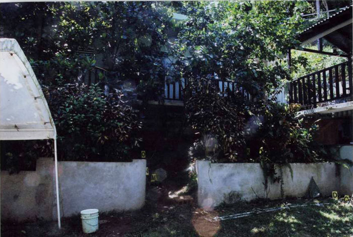 Figure 8- View of the front of the house, as it would have appeared to the FBI agents when they approached. A Review of the September 2005 Shooting Incident Involving the Federal Bureau of Investigation and Filiberto Ojeda Ríos. Office of the Inspector General, U.S Department of Justice, 2006.